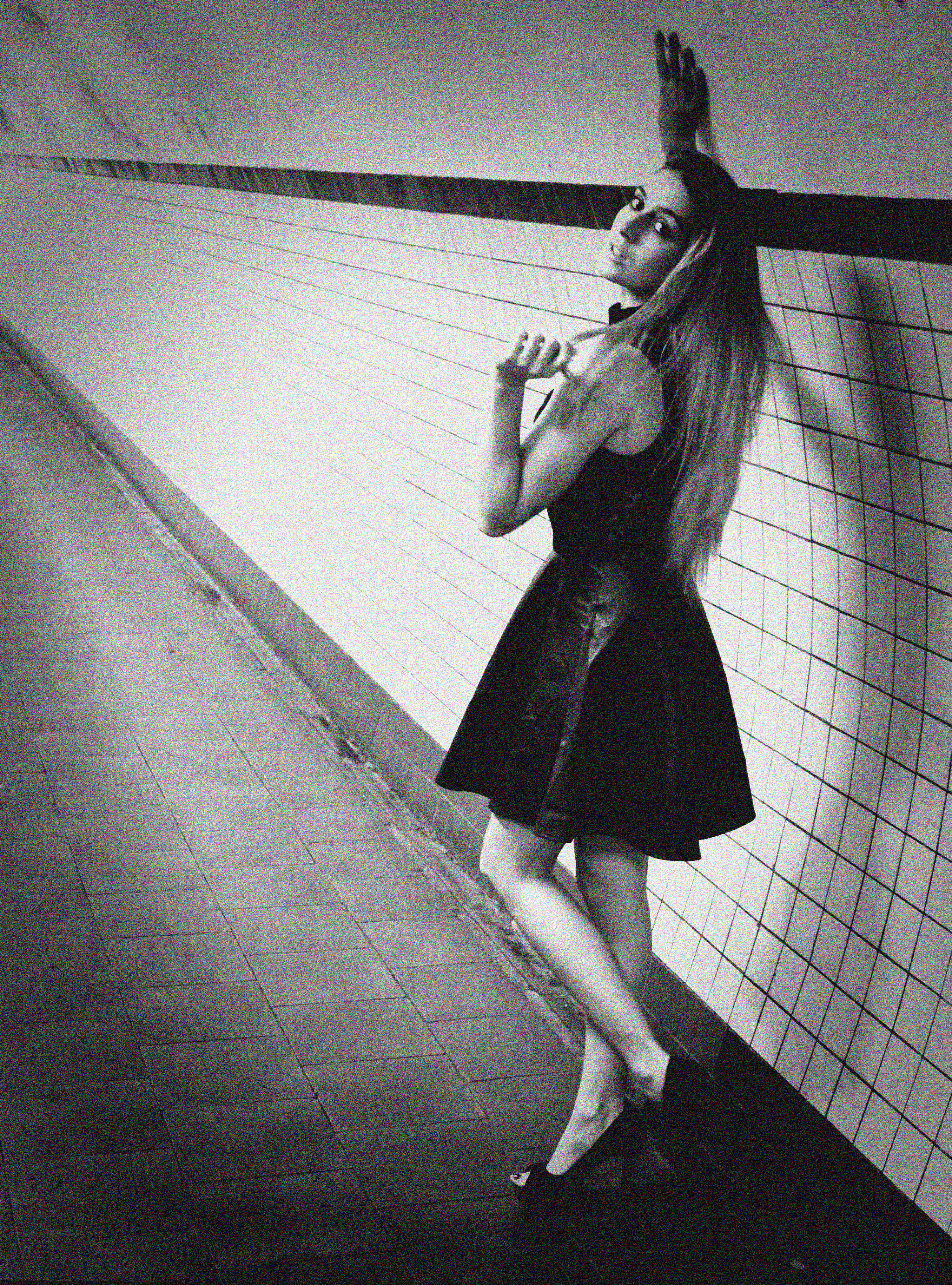 Axeela at the Sint-Anna tunnel in Antwerp